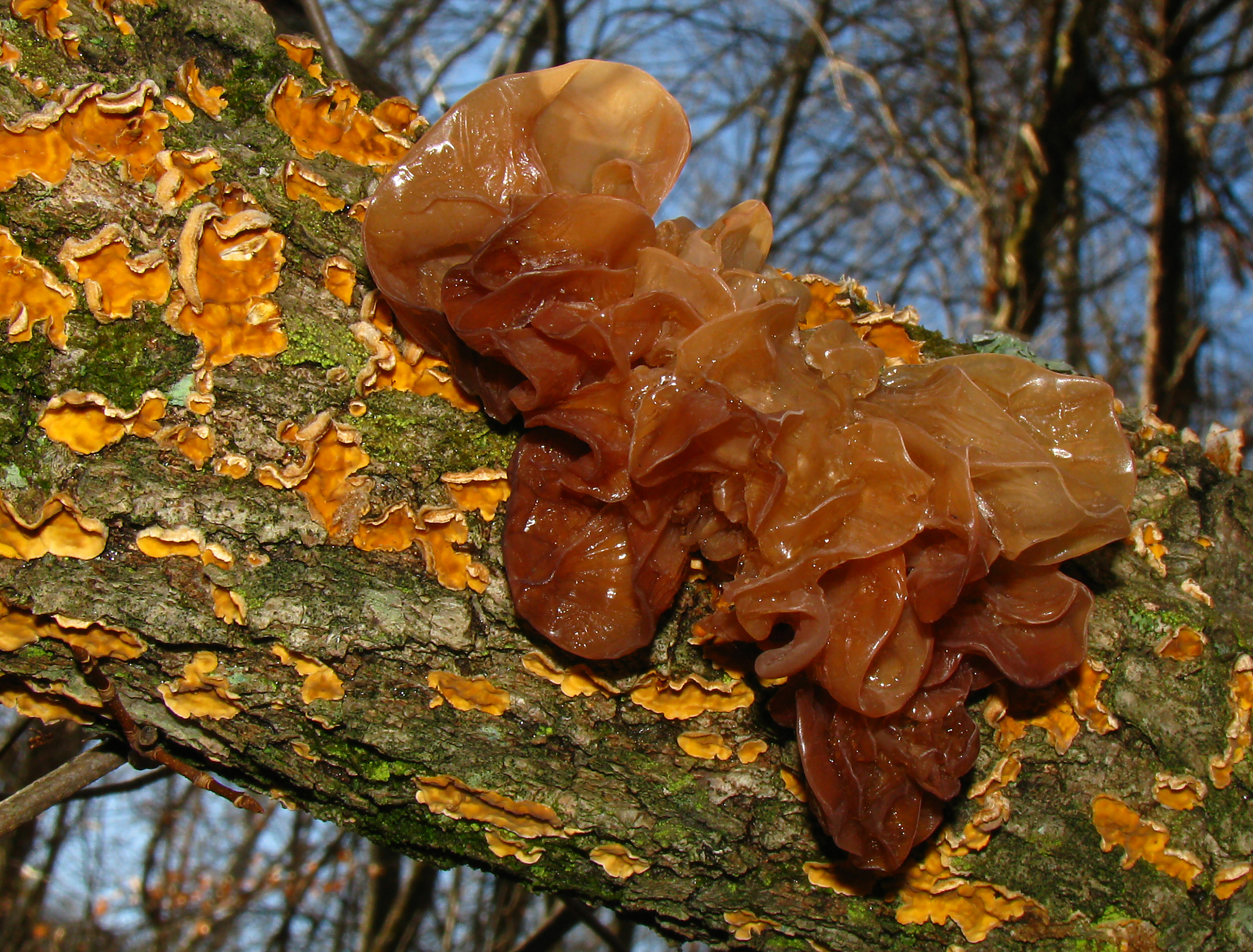 Tremella foliacea Pers. Location: Wayne National Forest, Athens Co., Ohio, USA For more information about this, see the observation page at Mushroom Observer.